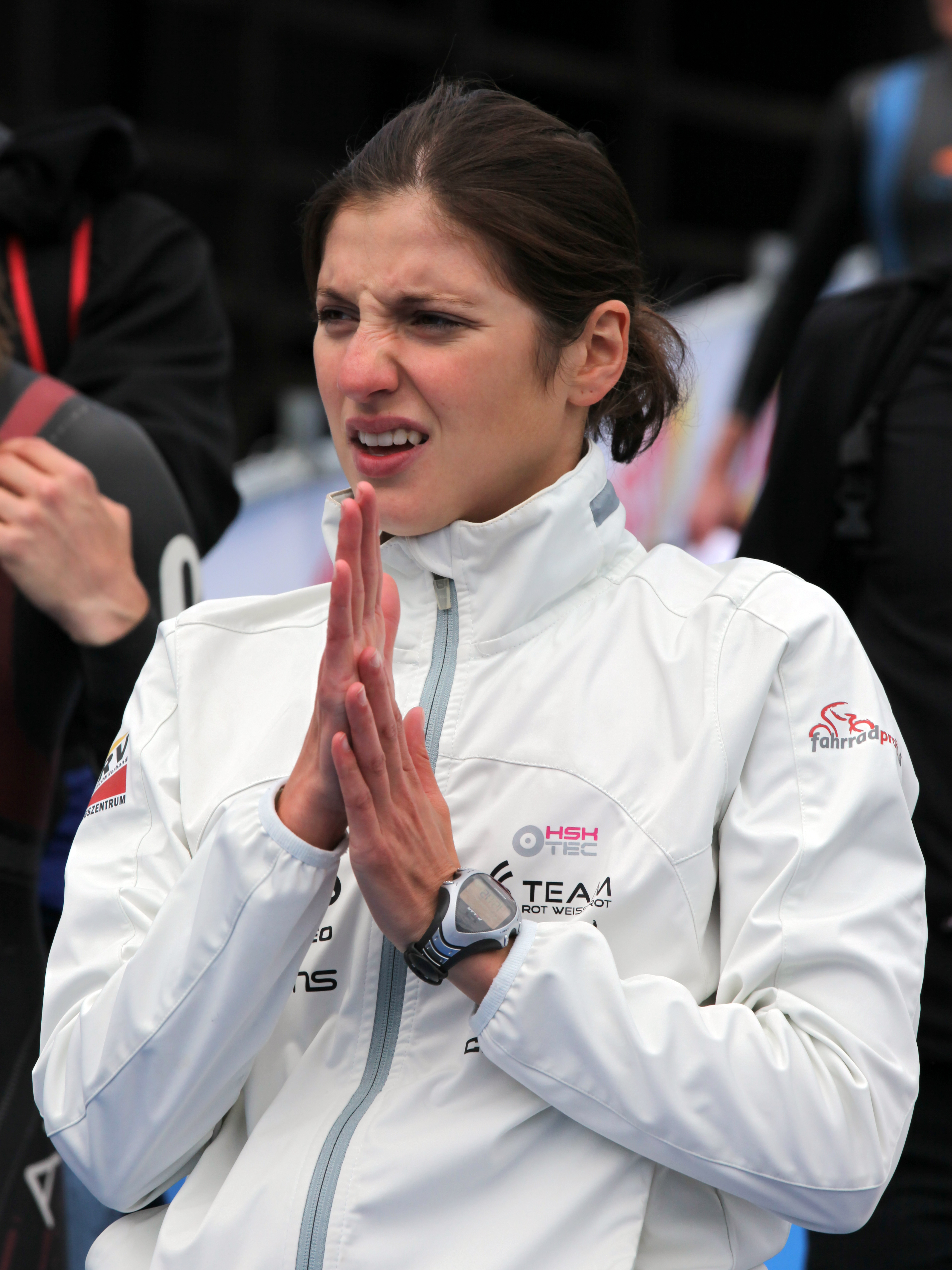 Lisa Perterer at the Dextro Energy World Championship Series triathlon in Kitzbühel, 2011.